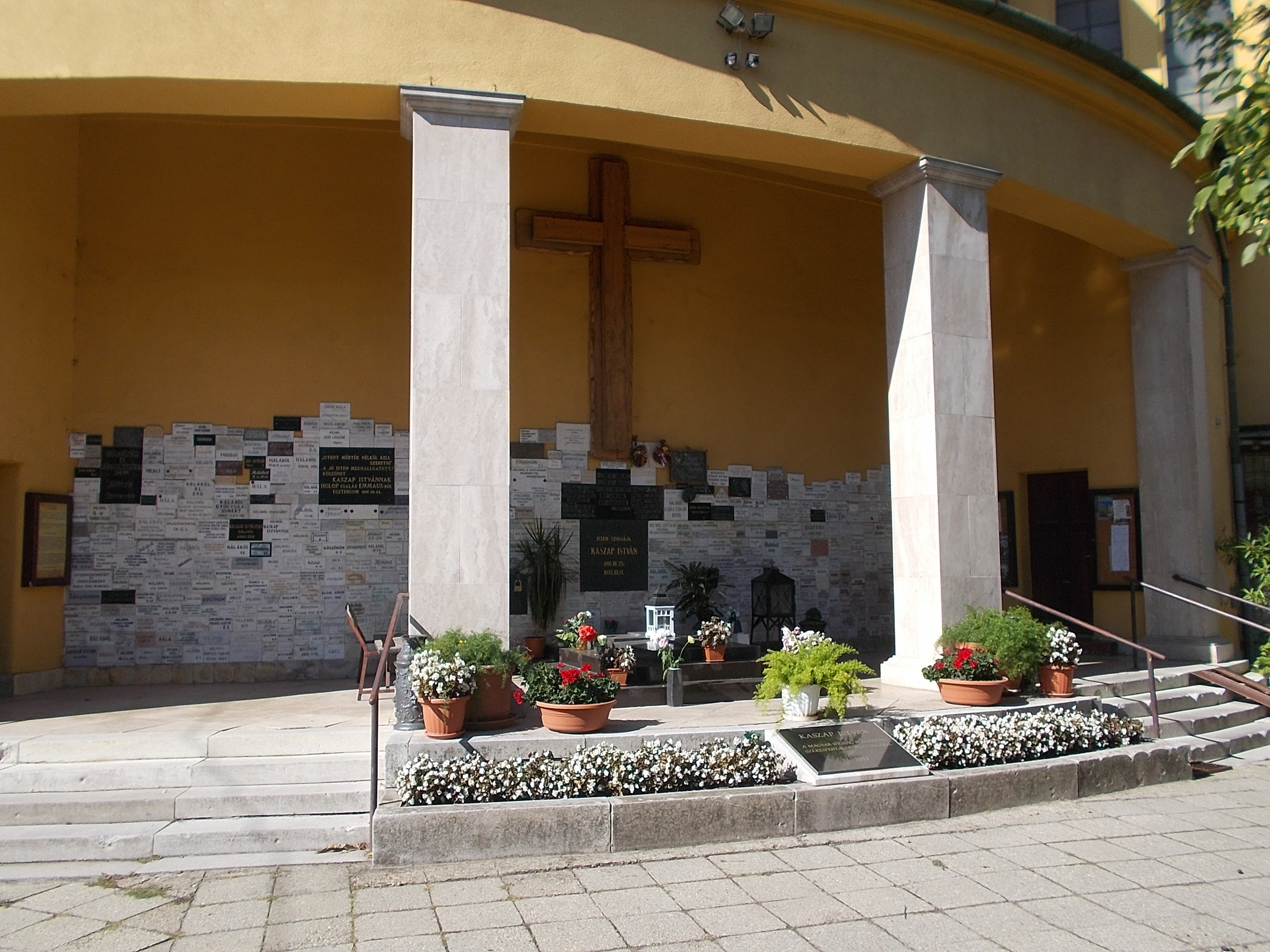 Tomb of István Kaszap under arcades of the Good Shepherd Church (Gáspár Fábián architect, 1933) churchyard side. In the churchyard are crucifix, belfry and tomb with bust of Gáspár Fábián by Antal Orbán (1990 bronze). - Prohászka Ottokár Street, Székesfehérvár, Fejér County, Hungary.